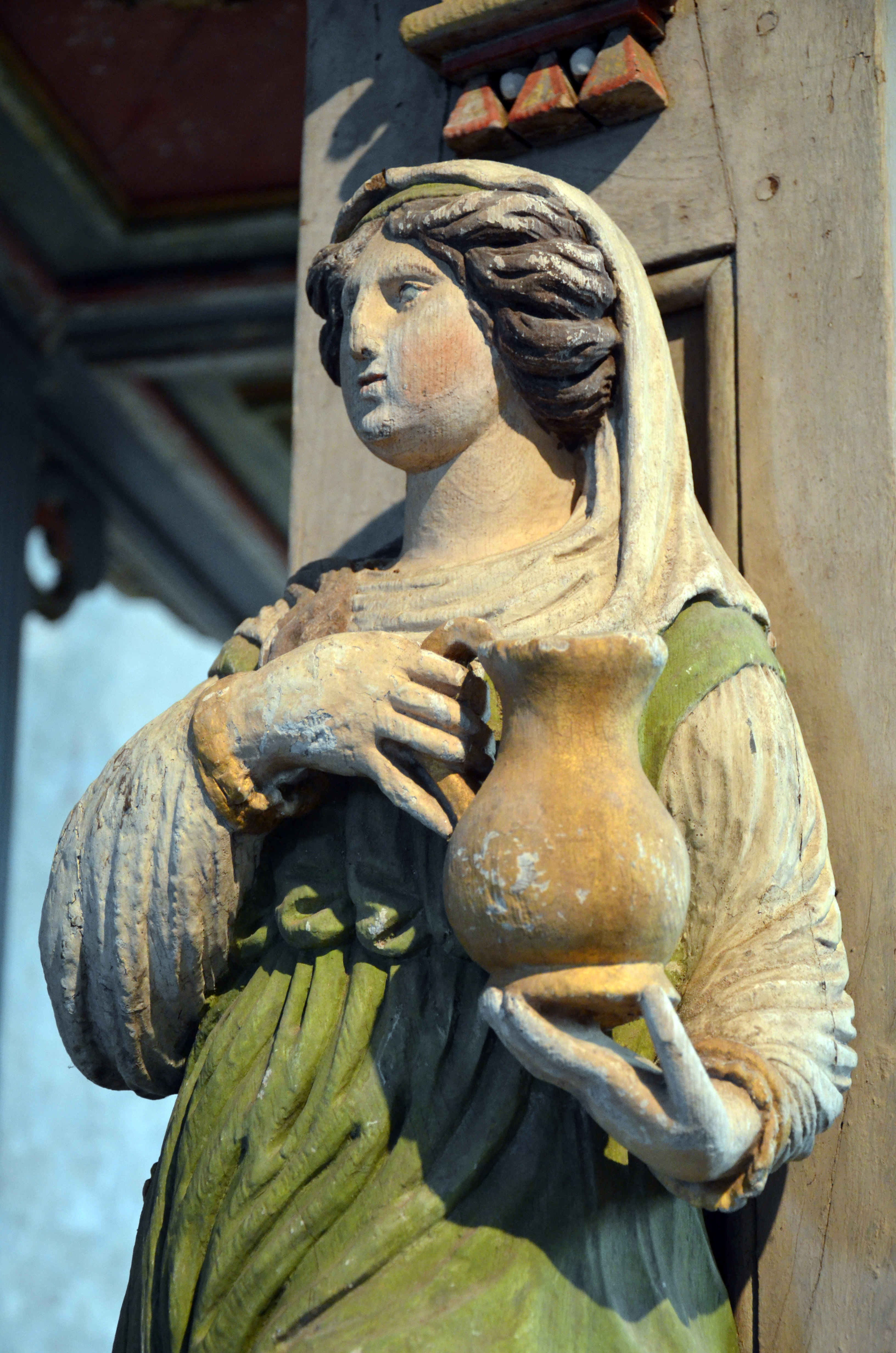 Inside of the church of Saint-Derrien (in common Commana, located in Brittany in western France). The south transept houses the "altar of the Five Wounds." At the bottom of the church, a baptistery basin of stone is topped by a high dai including wood carvings decorated with feminine virtues (temperance, justice ...).